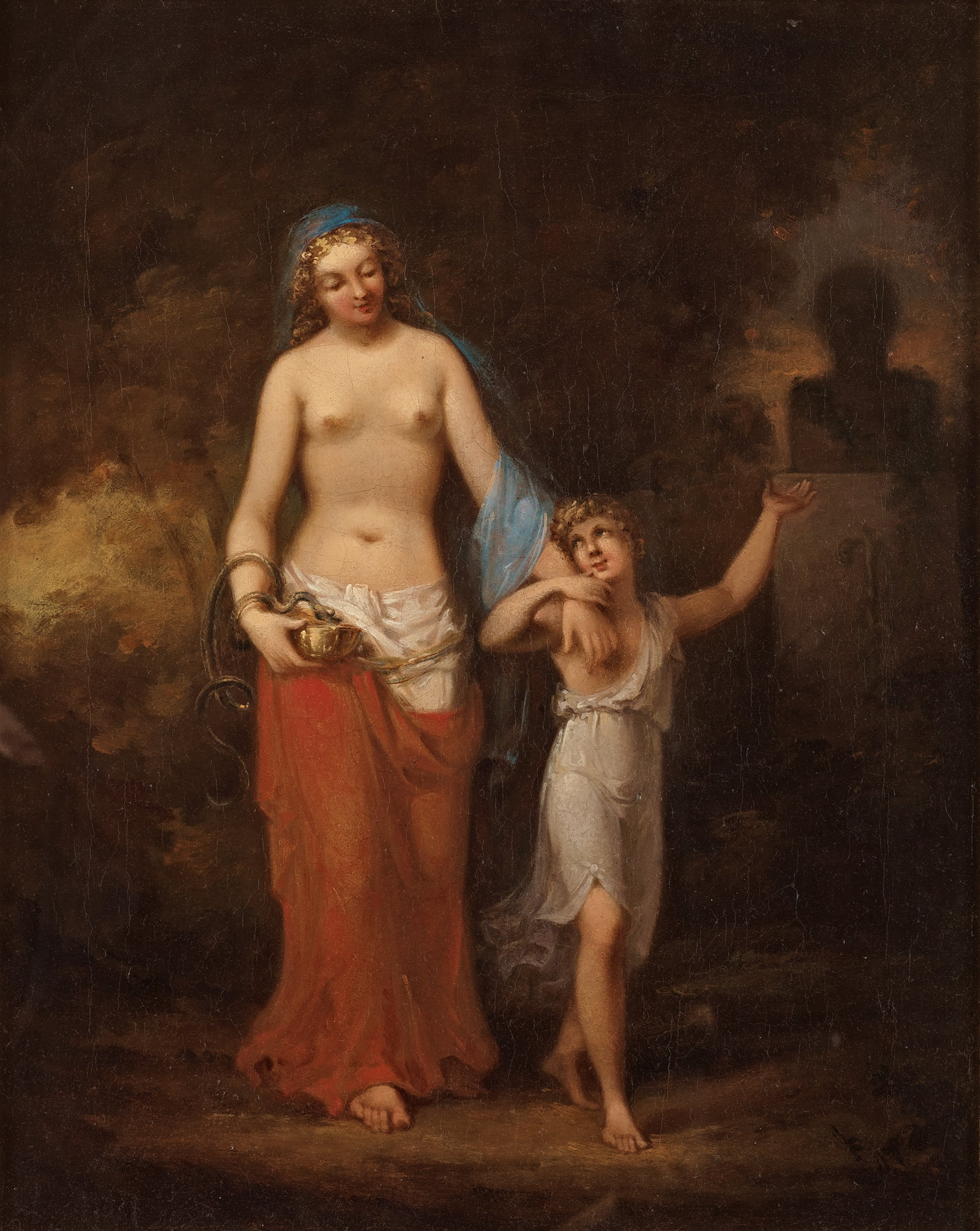 Painting depicting Caesarion pointing her mother to a bust of his father